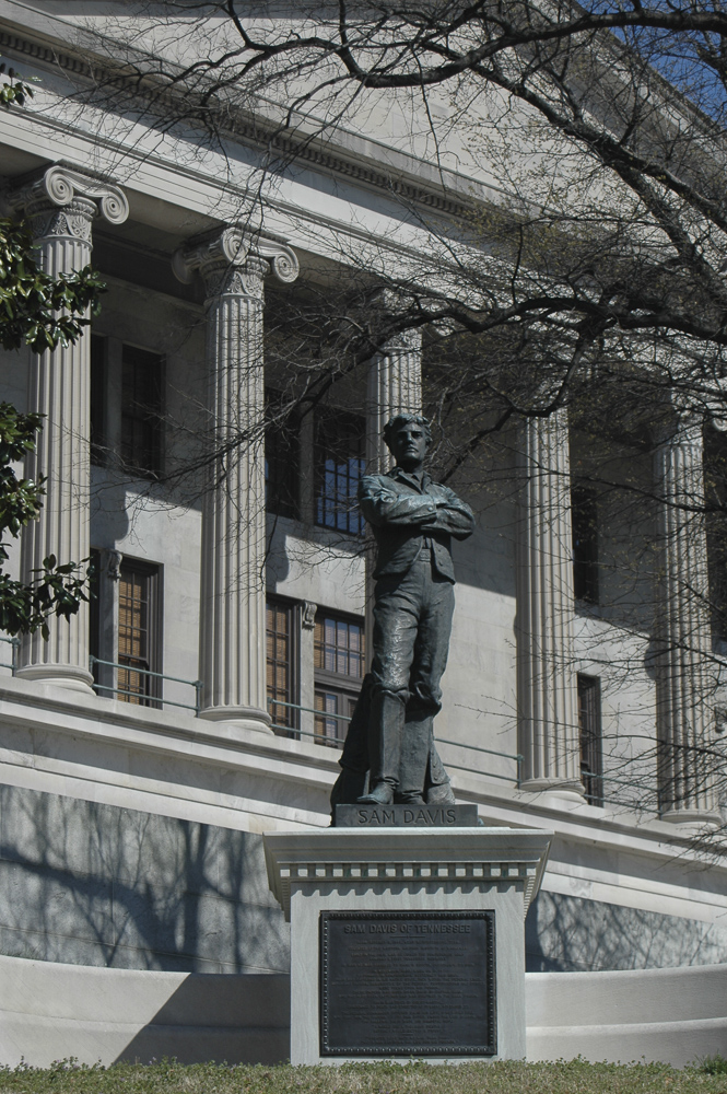 Statue of San Davis, "boy hero of the Confederacy", in the grounds of the Tennessee State Capitol, Nashville